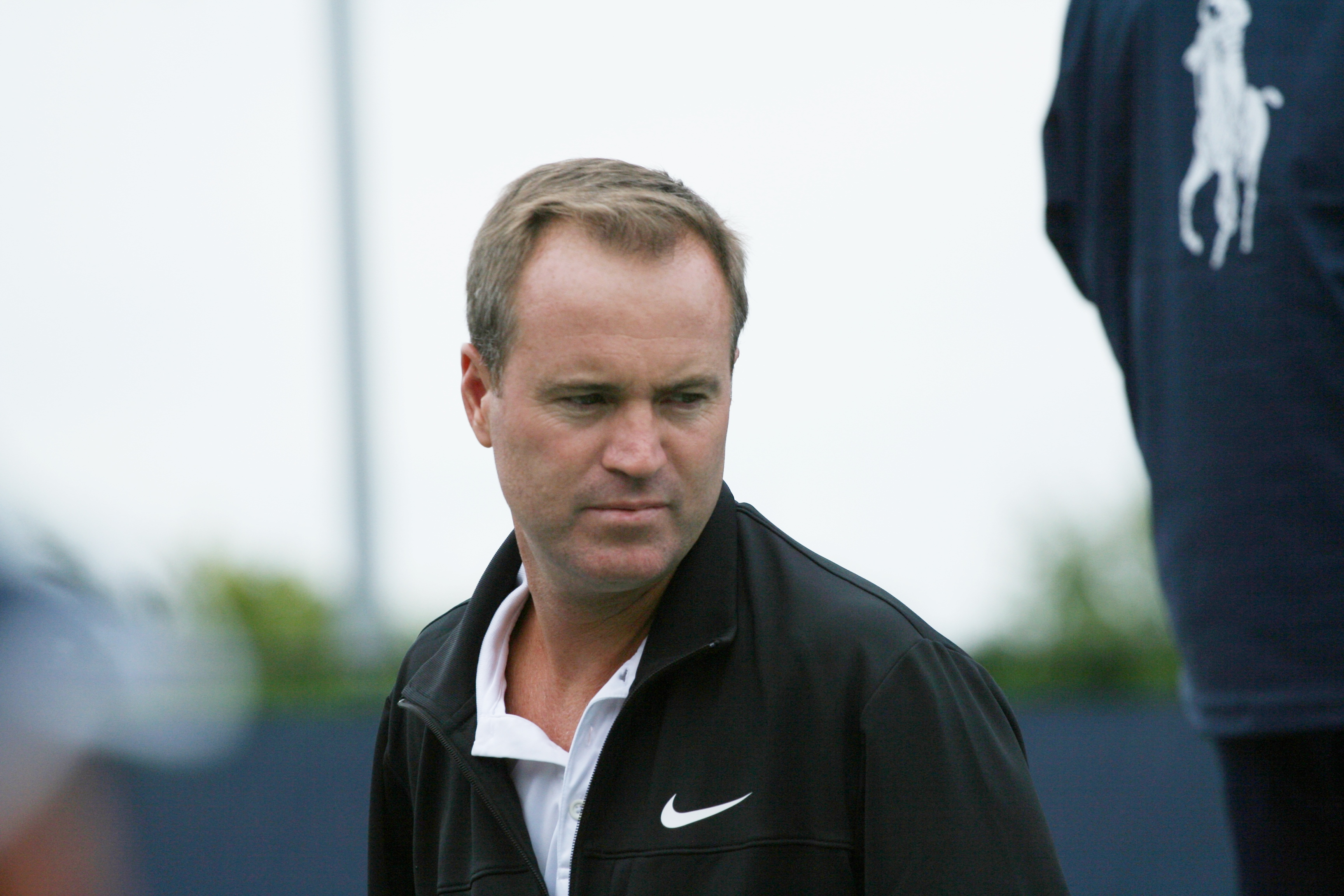 U.S. Open Champions Team Tennis Thursday, Sept. 10, 2009